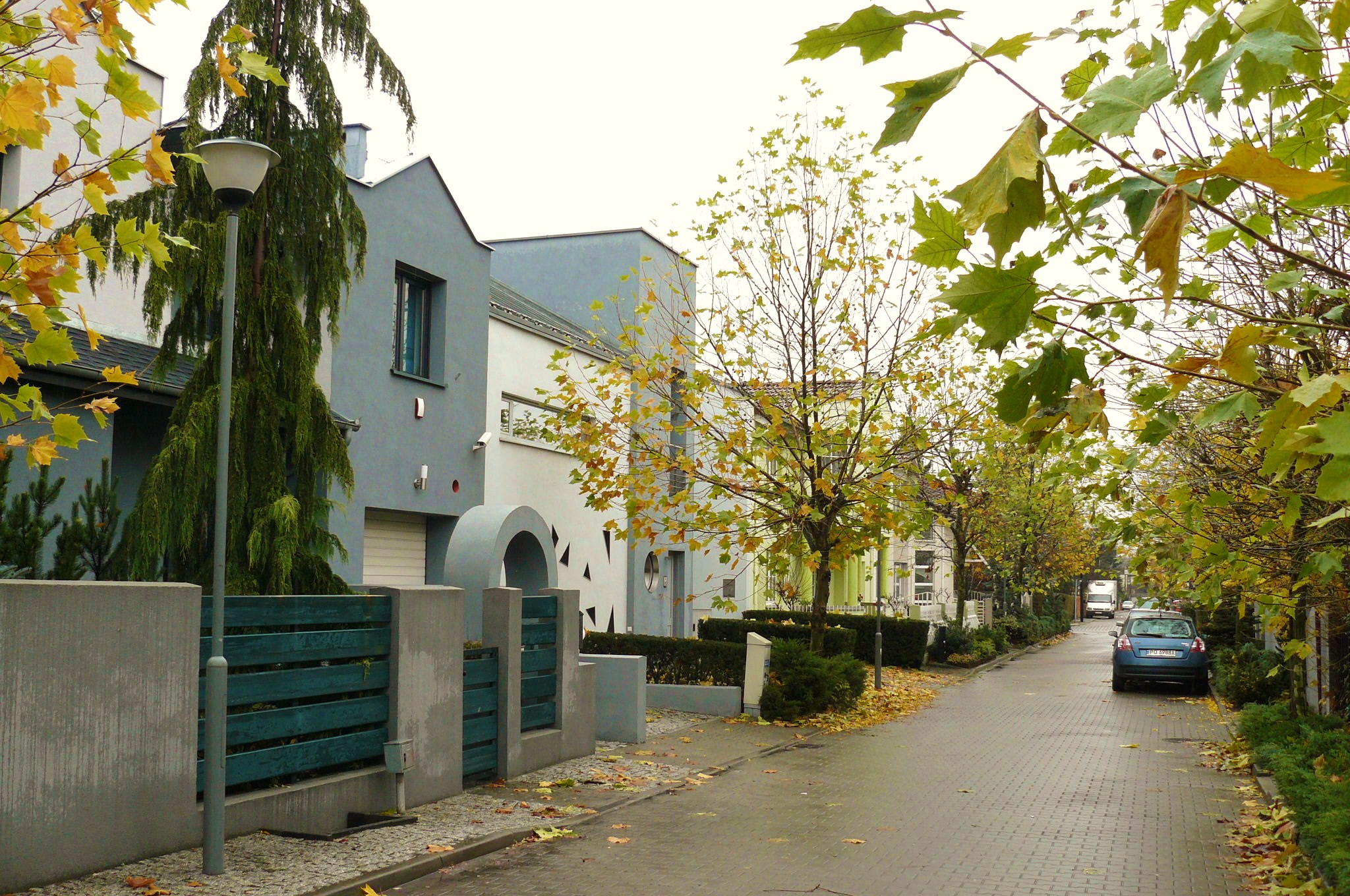 Za Fortem District - Poznan. Kleeberg Street.